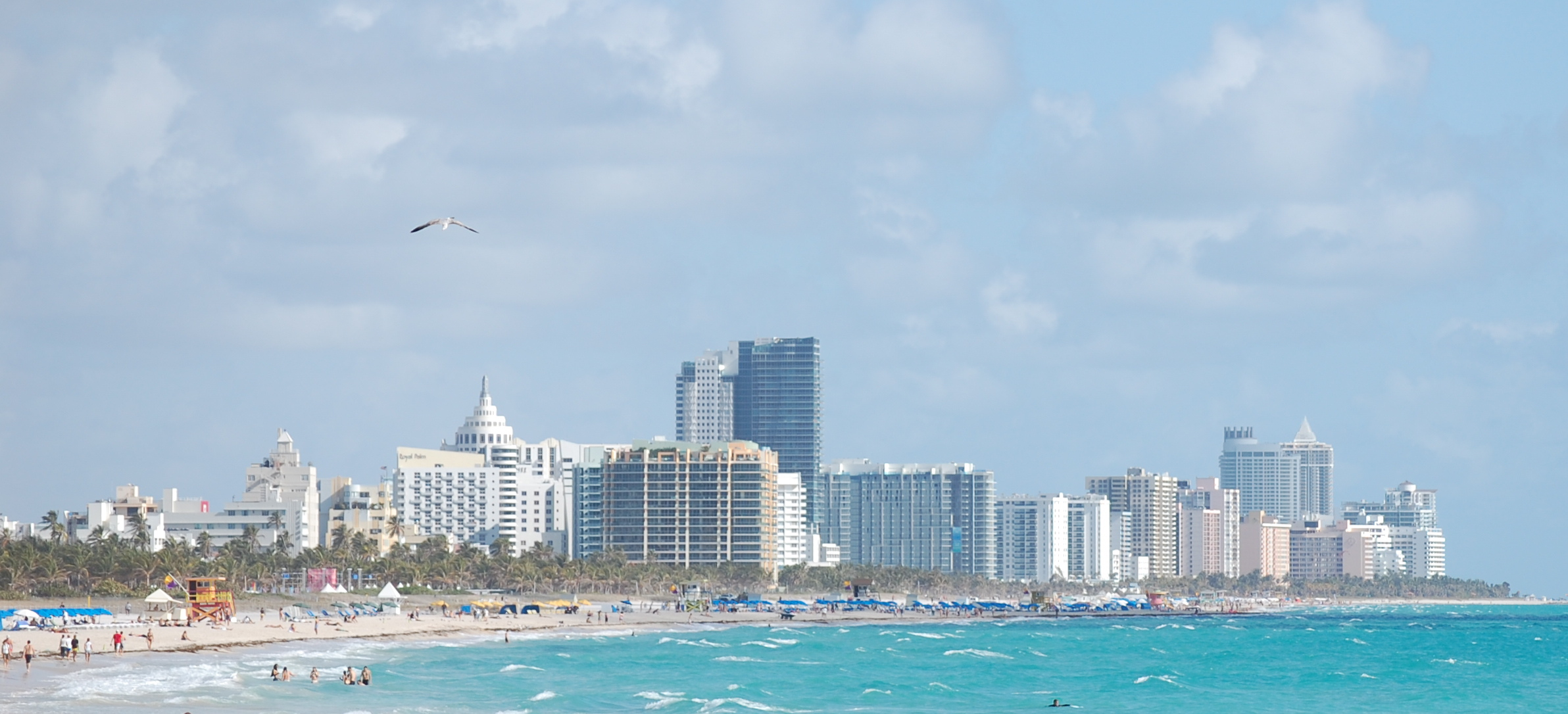 South Beach Miami, Florida panorama taken from South Point area. South Beach Miami, Florida 33139.